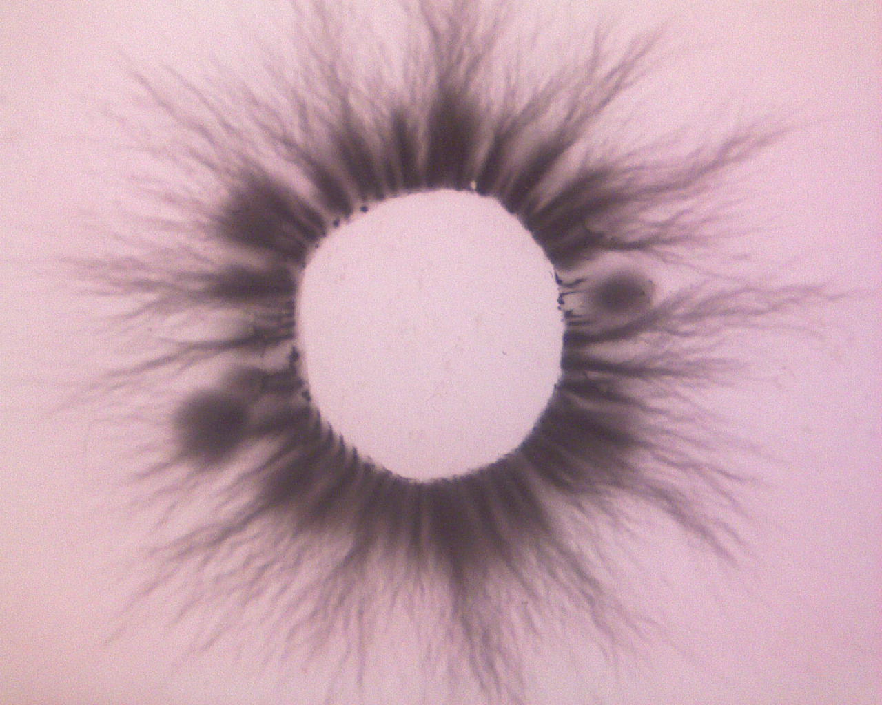 Photo of a finger of a hand in high voltage electric field